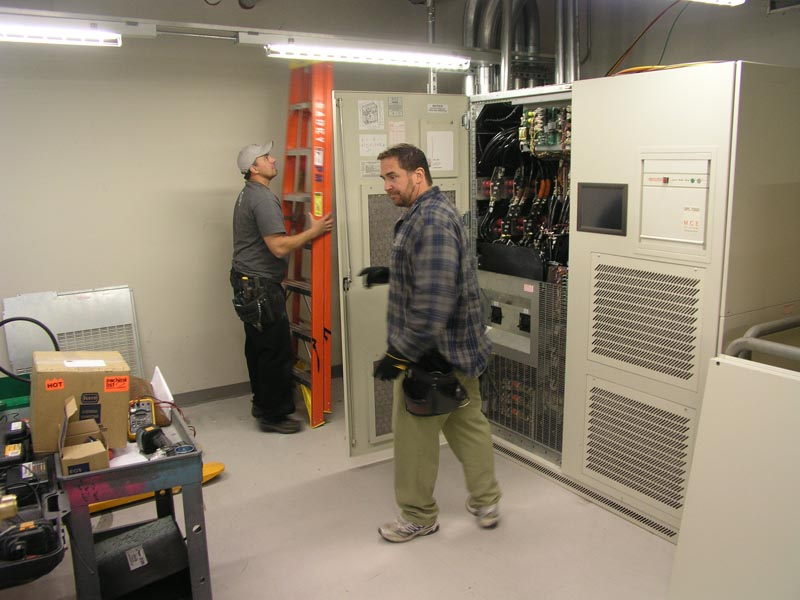 Large UPS (Uninterruptible Power Supply) being installed in a Datacenter. This unit has a 500kVA capacity. Electricians provide scale for size.